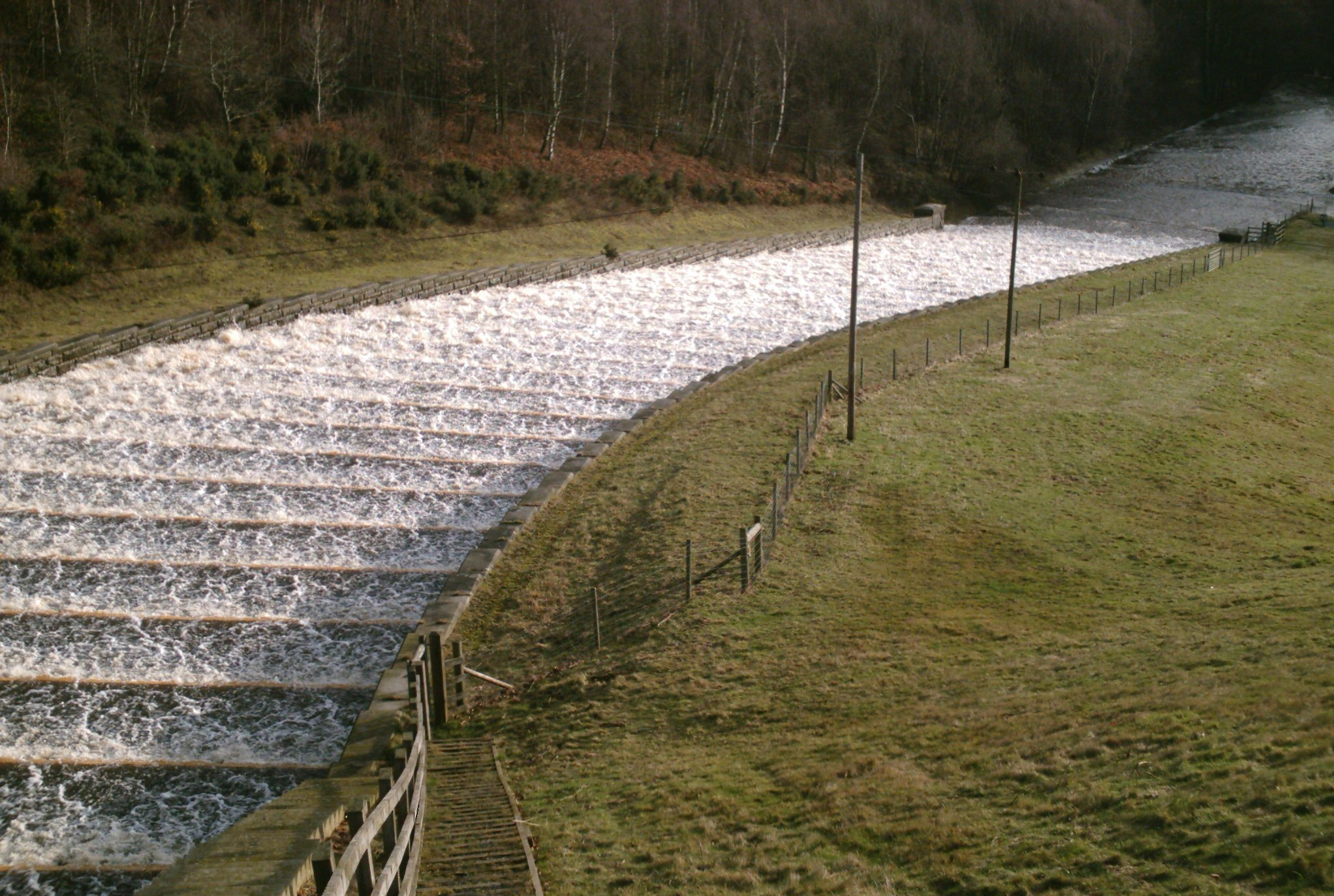 The cascade overflow at Lindley Wood Reservoir in the Washburn Valley near Harrogate, England, UK.